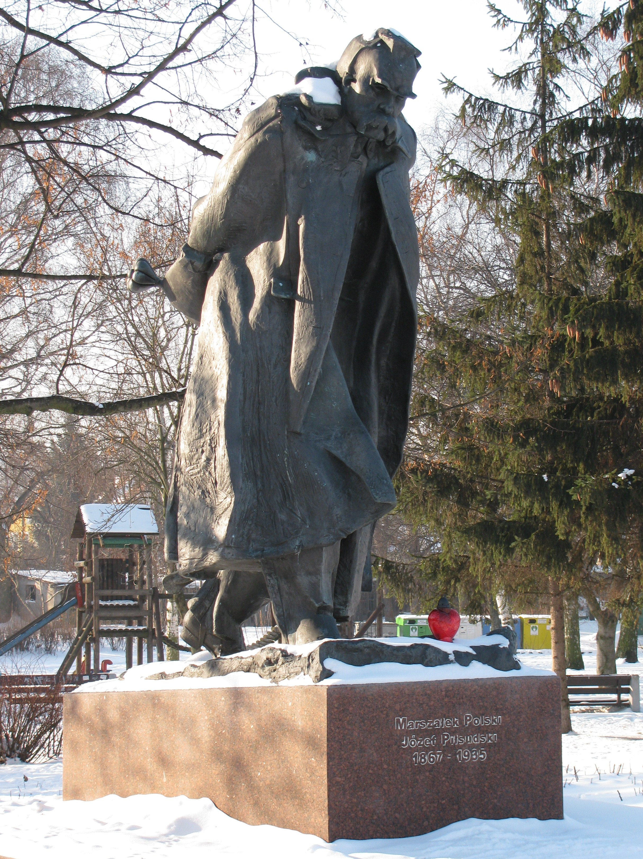 A monument to Józef Piłsudski in Gdańsk.